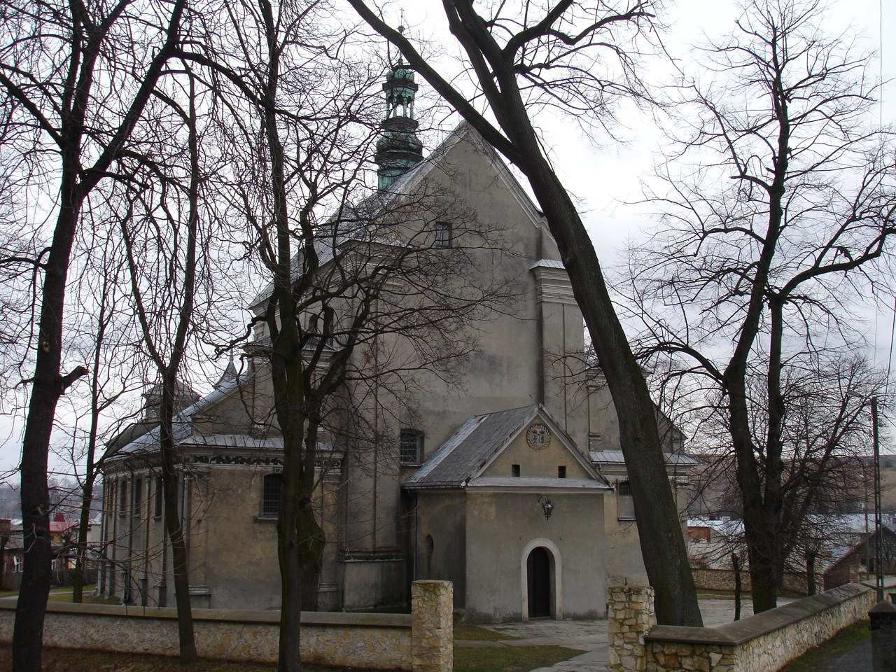 the St. John the Baptist church in Pilica.